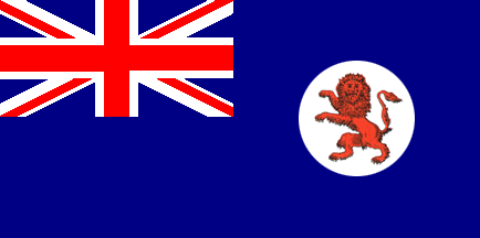 Colonial flag of British East Africa, later Kenya